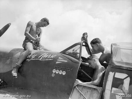 AWM caption : MOROTAI, HALMAHERA ISLANDS, NETHERLANDS EAST INDIES. 1945-04-09. THE VICTORIAN MEMBERS OF THIS SPITFIRE GROUND CREW OF NO. 457 "GREY NURSE" SHARK SQUADRON RAAF TAKE A SPECIAL PRIDE IN WORKING ON THIS MACHINE BECAUSE IT IS THE ONE FLOWN BY WING COMMANDER ROBERT HENRY MAXWELL (BOBBY) GIBBES DSO DFC AND BAR, AND THE SCORE ON THE FUSELAGE OF 10 1/4 ENEMY AIRCRAFT MARKS HIM AS AN ACE AIRMAN. SHOWN: 121405 LEADING AIRCRAFTMAN L. MORROW OF BRUNSWICK (ON FUSELAGE); 13811 CORPORAL (CPL) J. BENSEN OF MELBOURNE (IN COCKPIT); 19977 CPL J. GRIFFIN OF MELBOURNE.